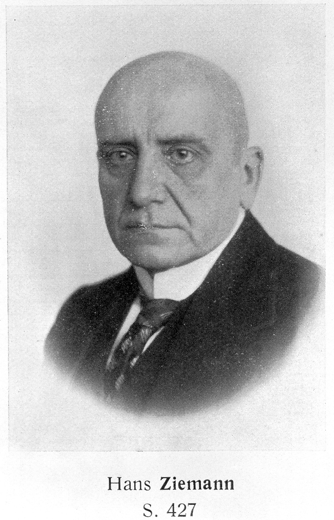 Portrait of Hans Ziemann General Collections Keywords: Hans Ziemann